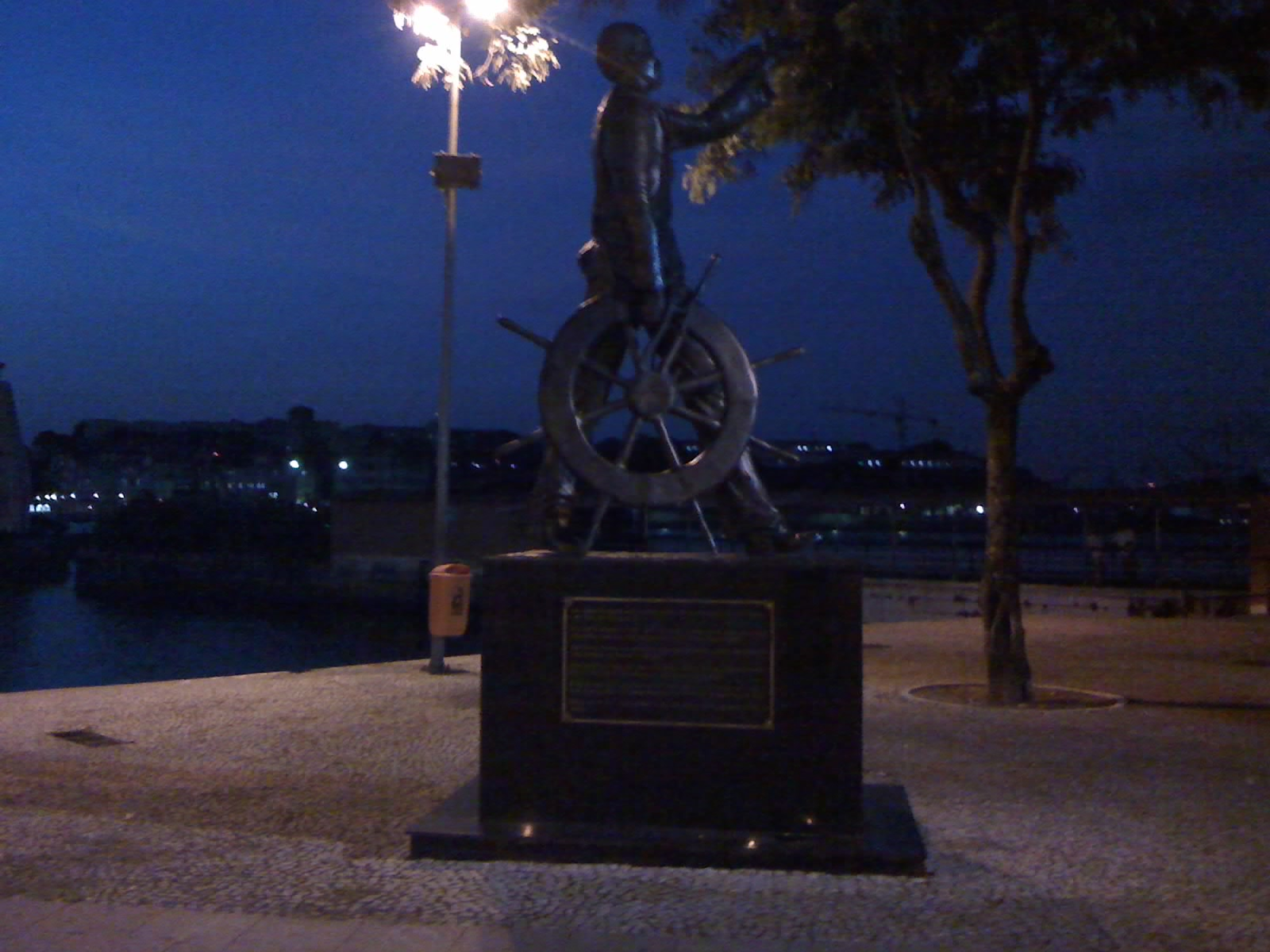 Sailor Joao Candido's monument at Praça XV de Novembro, Rio de janeiro, Brazil.